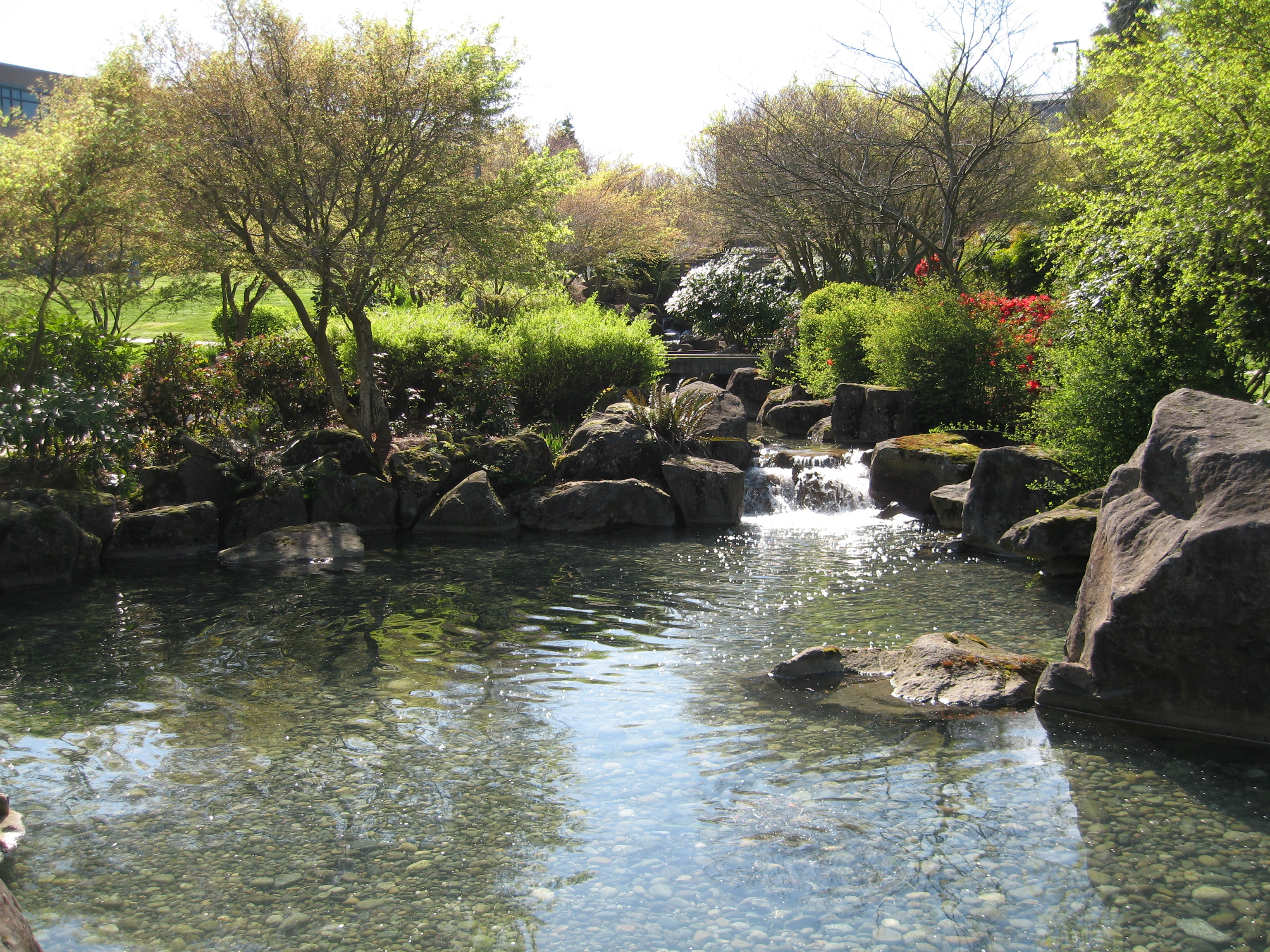 A picture of Microsoft's RedWest Campus